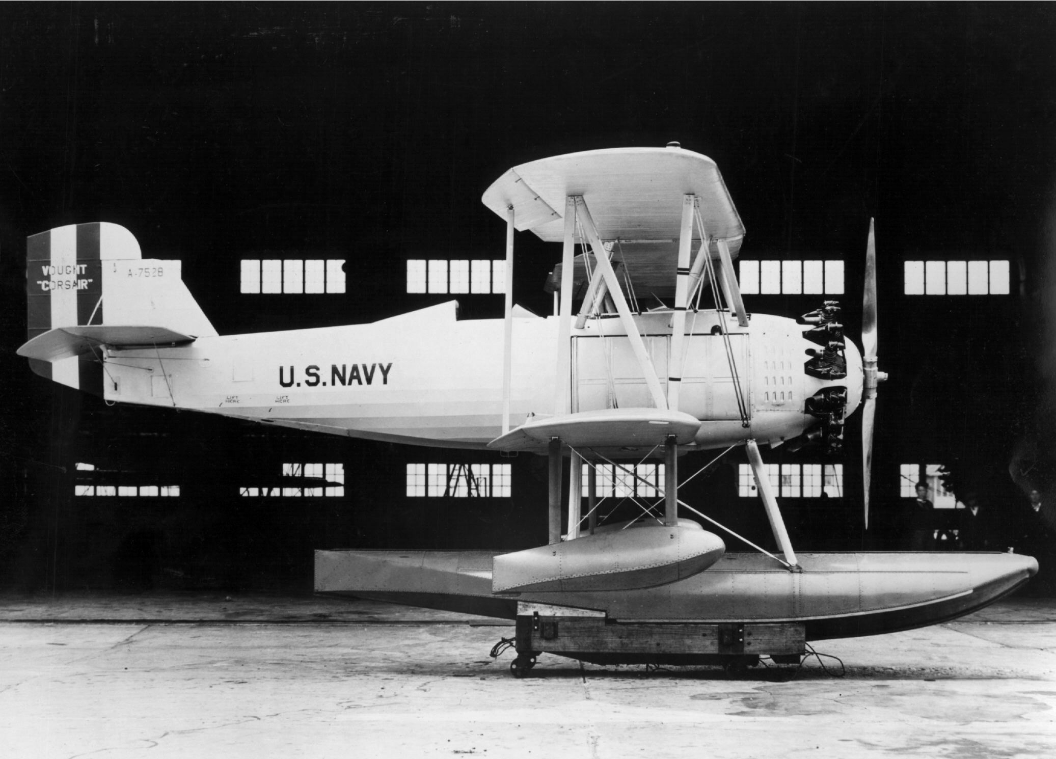 A U.S. Navy Vought O2U-1 Corsair floatplane (BuNo A7528). This particular airplane was the third example of the Corsair off the assembly line.